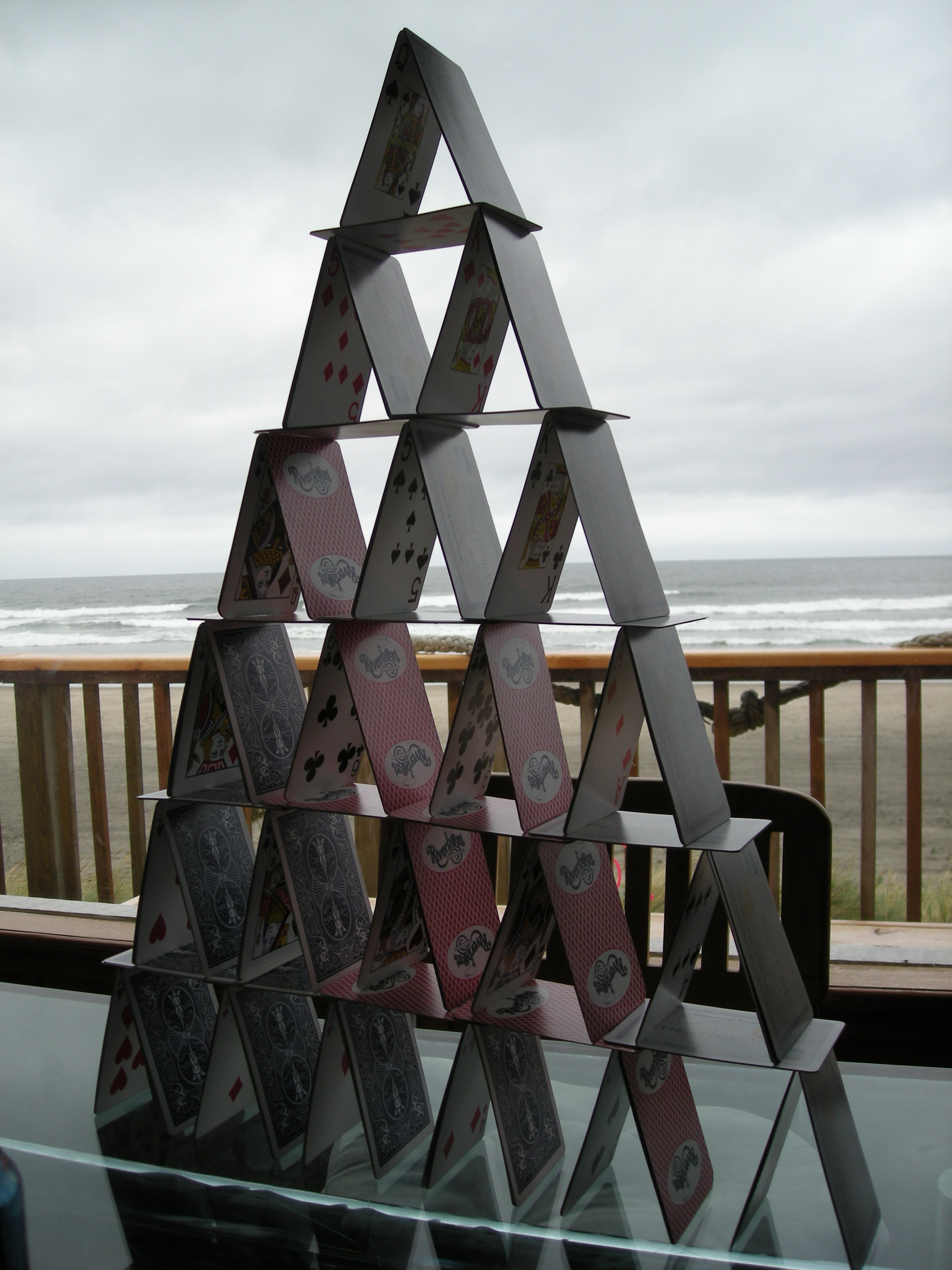 A six-story card castle (or "House of Cards") made from 3 1/2 decks of playing cards.